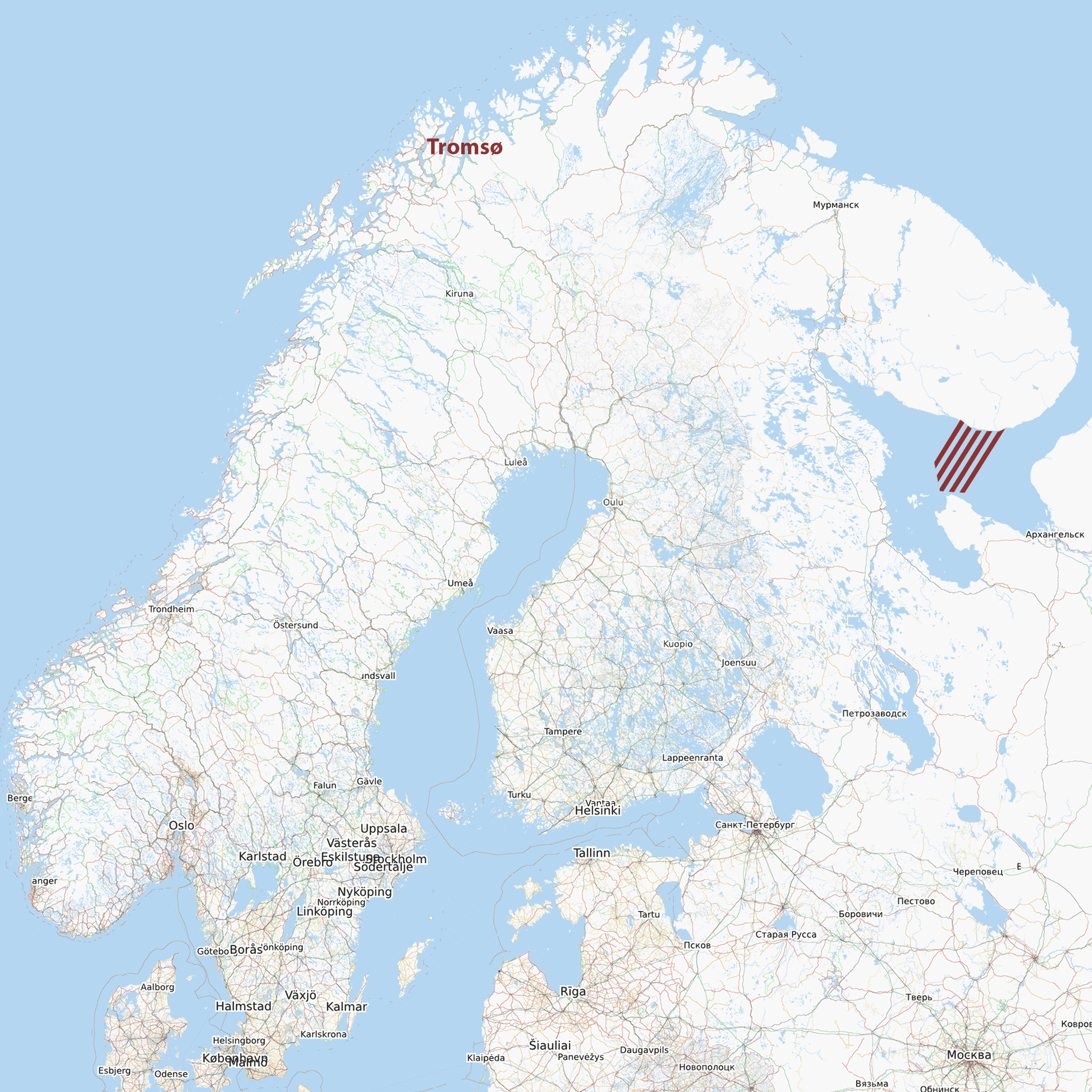 Map highlighting the location of Tromsø and the White Sea.